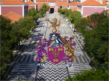 parada__